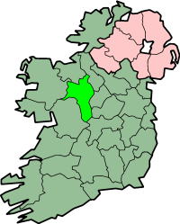 map of County Roscommon, Ireland 08:08, 5 February 2004 Morwen 200x249 (30679 bytes) (map)